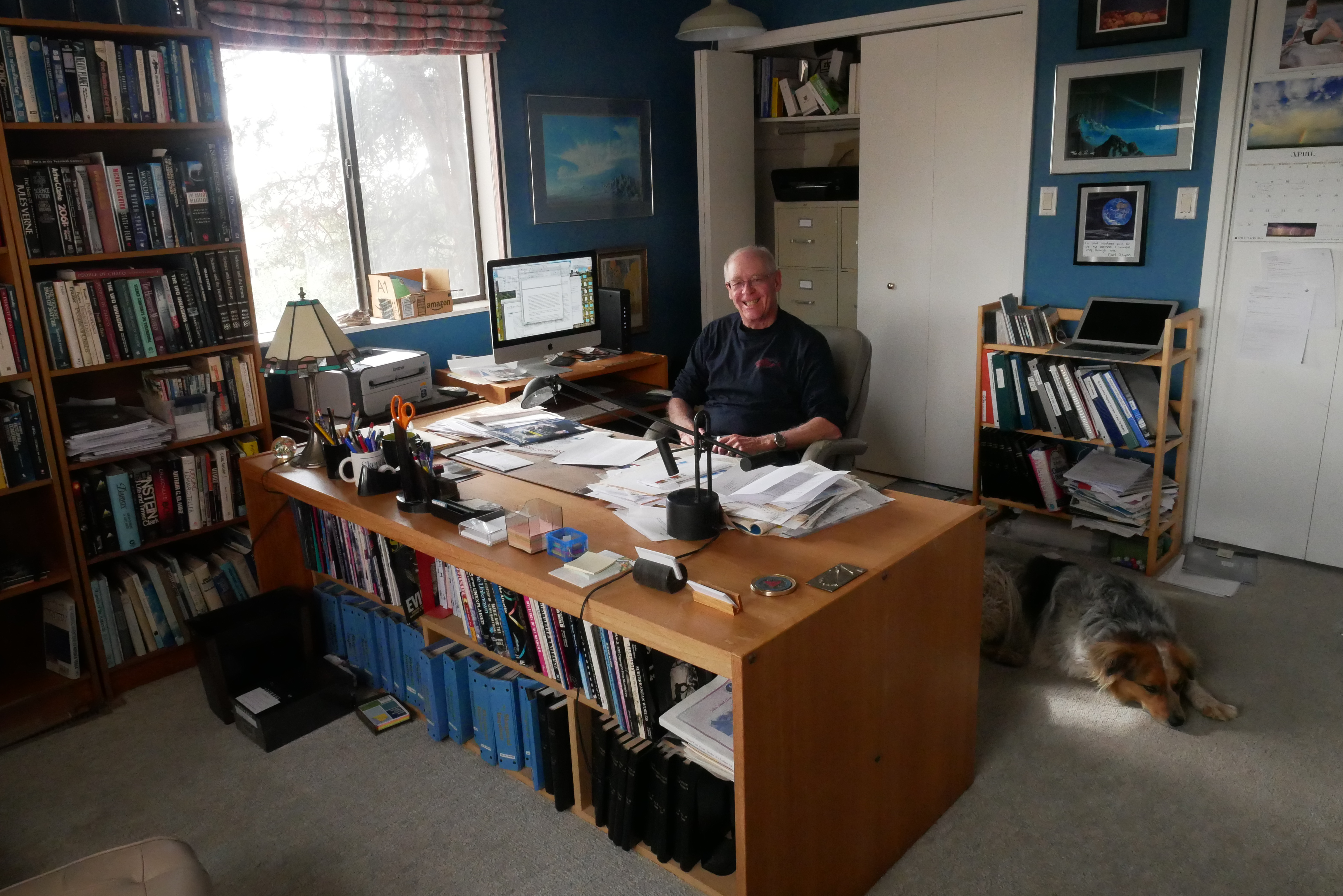 Ken Frazier in office 2018 with Darwin